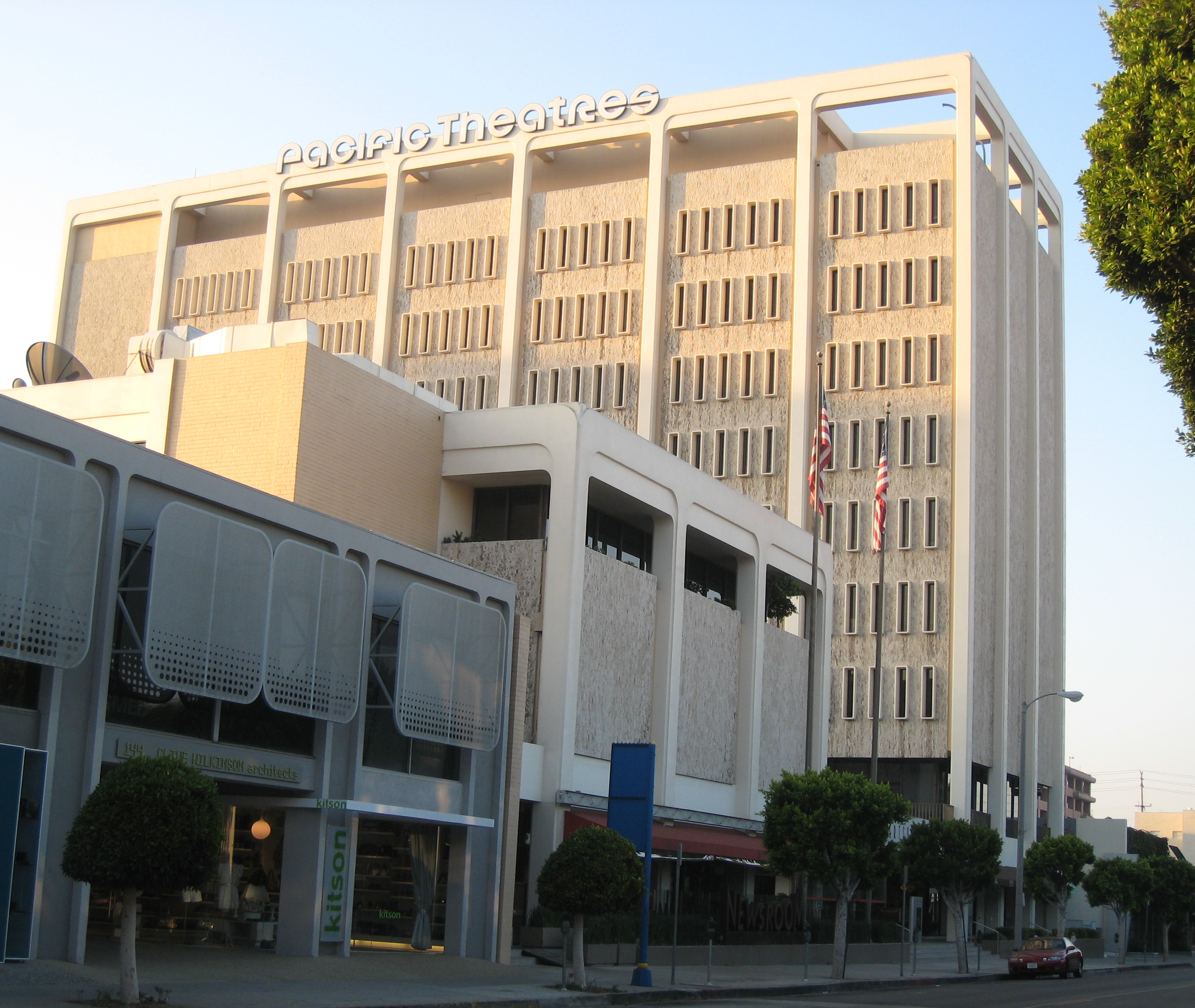 Pacific Theatres headquarters on Robertson Boulevard in Beverly Hills, California